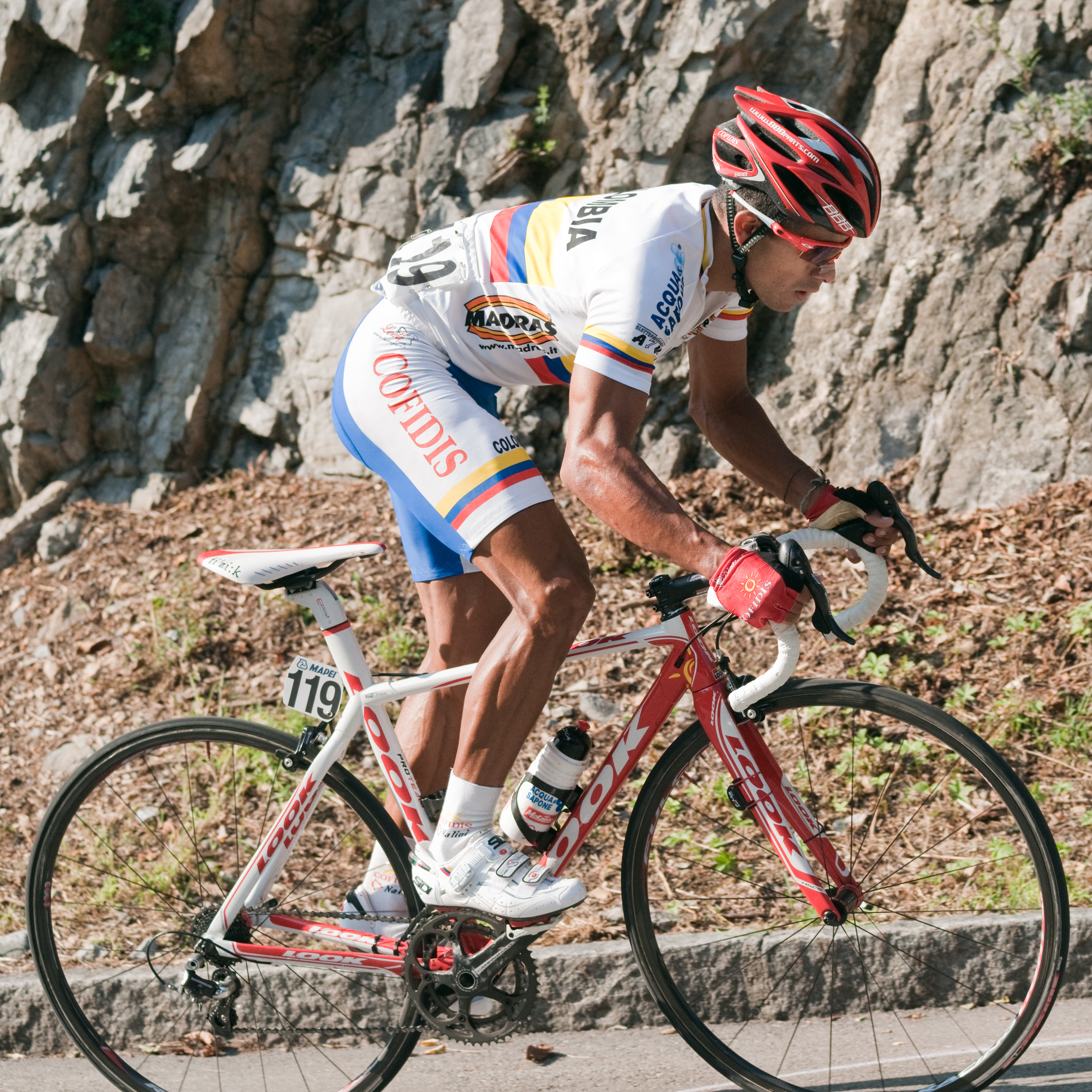 Leonardo Duque during the 2009 UCI Road World Championships in Mendrisio, Switzerland.